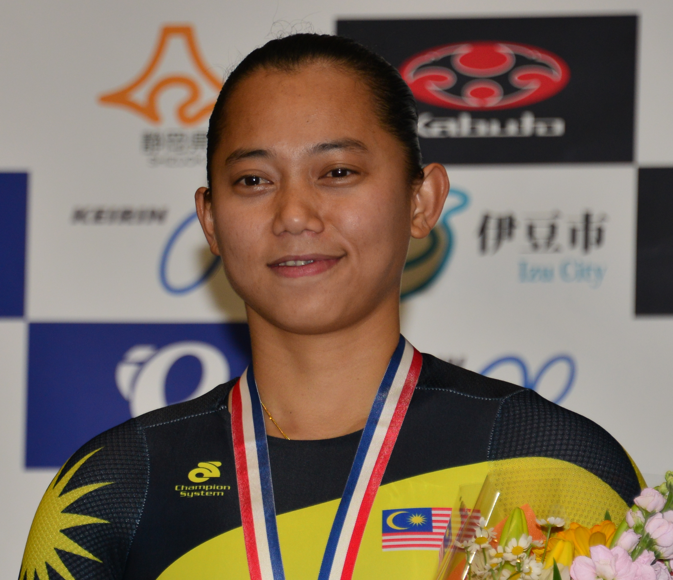 ASIAN CYCLING CHAMPIONSHIP 2016 Silver Medallist - Keirin: Fatehah Mustapa from Malaysia